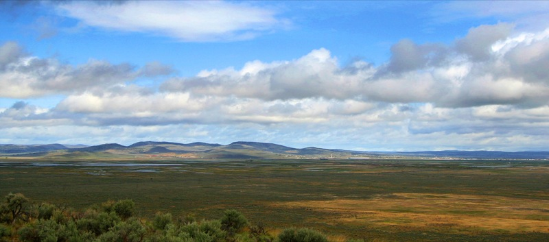 Clouds over Harney Basin — near Burns, Great Basin region of Oregon. 2007